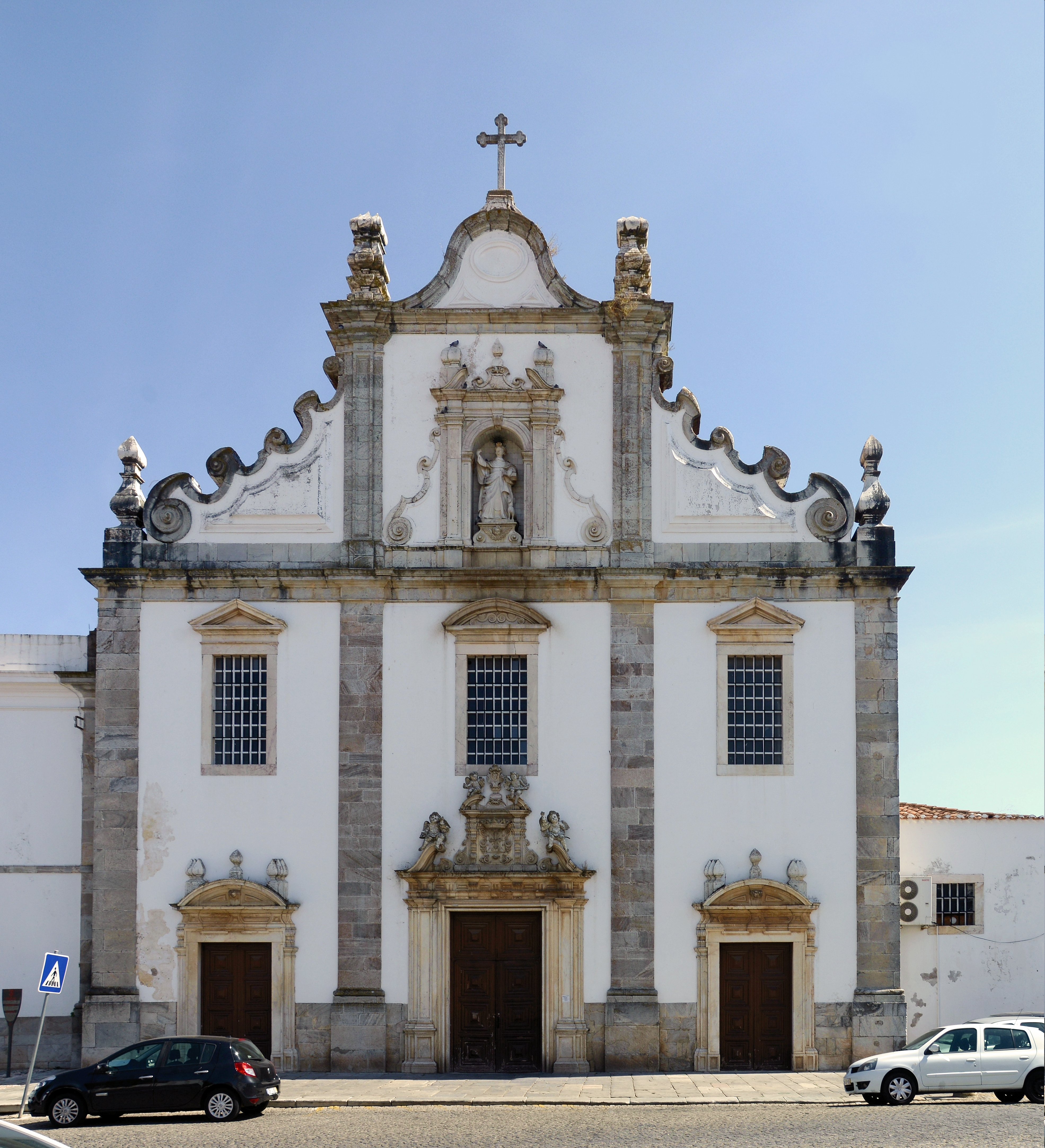 The Church of São Domingos, Elvas, Portugal